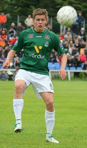 finnbogasson vs fylkir